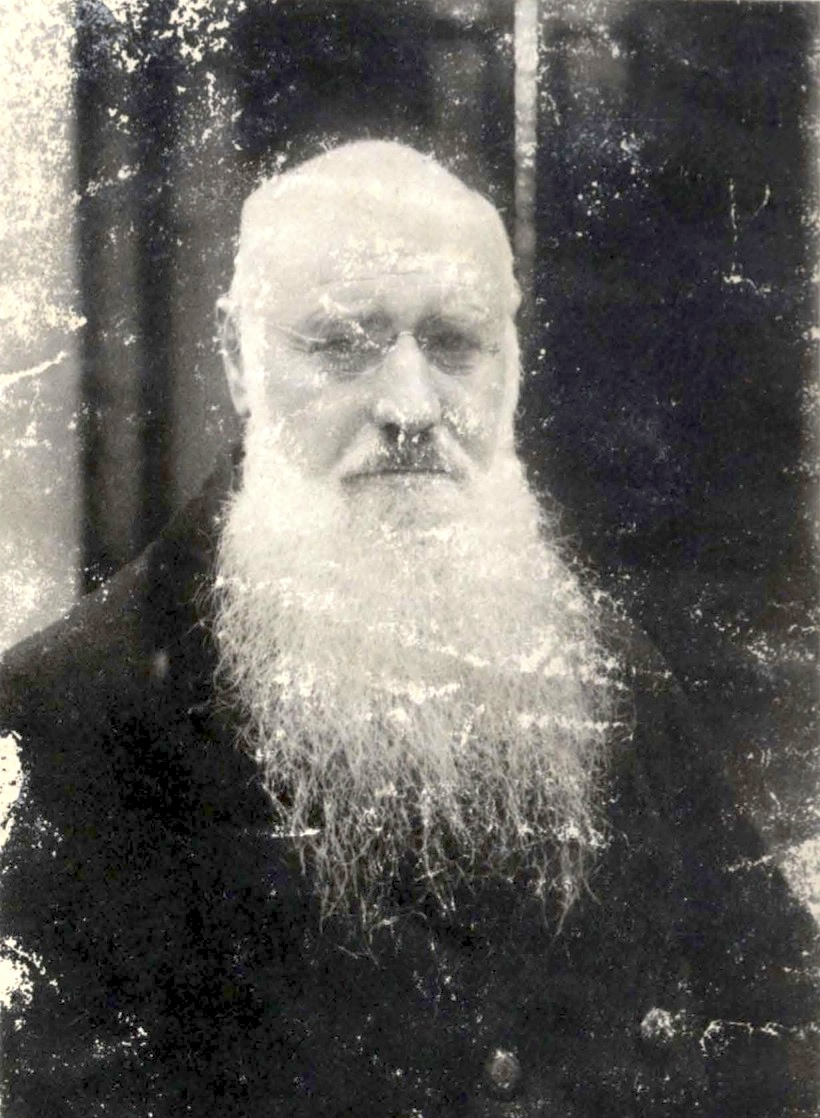 Thomas de la Hoz